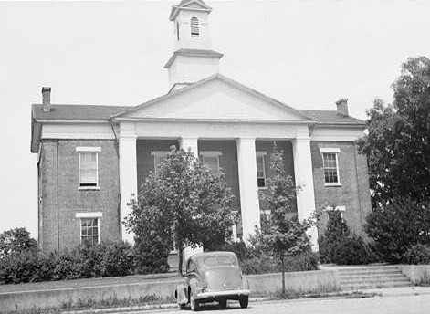 Polk County Courthouse, Courthouse Street, Columbus (Polk County, North Carolina) - cropped This file comes from the Historic American Buildings Survey (HABS), Historic American Engineering Record (HAER) or Historic American Landscapes Survey (HALS). These are programs of the National Park Service established for the purpose of documenting historic places. Records consist of measured drawings, archival photographs, and written reports. When reusing please credit: Library of Congress, Prints & Photographs Division, NC,75-COLUM,2-1 This tag does not indicate the copyright status of the attached work. A normal copyright tag is still required. See Commons:Licensing. This work is in the public domain in the United States because it is a work prepared by an officer or employee of the United States Government as part of that person’s official duties under the terms of Title 17, Chapter 1, Section 105 of the US Code. Note: This only applies to original works of the Federal Government and not to the work of any individual U.S. state, territory, commonwealth, county, municipality, or any other subdivision. This template also does not apply to postage stamp designs published by the United States Postal Service since 1978. (See § 313.6(C)(1) of Compendium of U.S. Copyright Office Practices). It also does not apply to certain US coins; see The US Mint Terms of Use. This file has been identified as being free of known restrictions under copyright law, including all related and neighboring rights. Object location35° 15′ 05″ N, 82° 11′ 54″ W